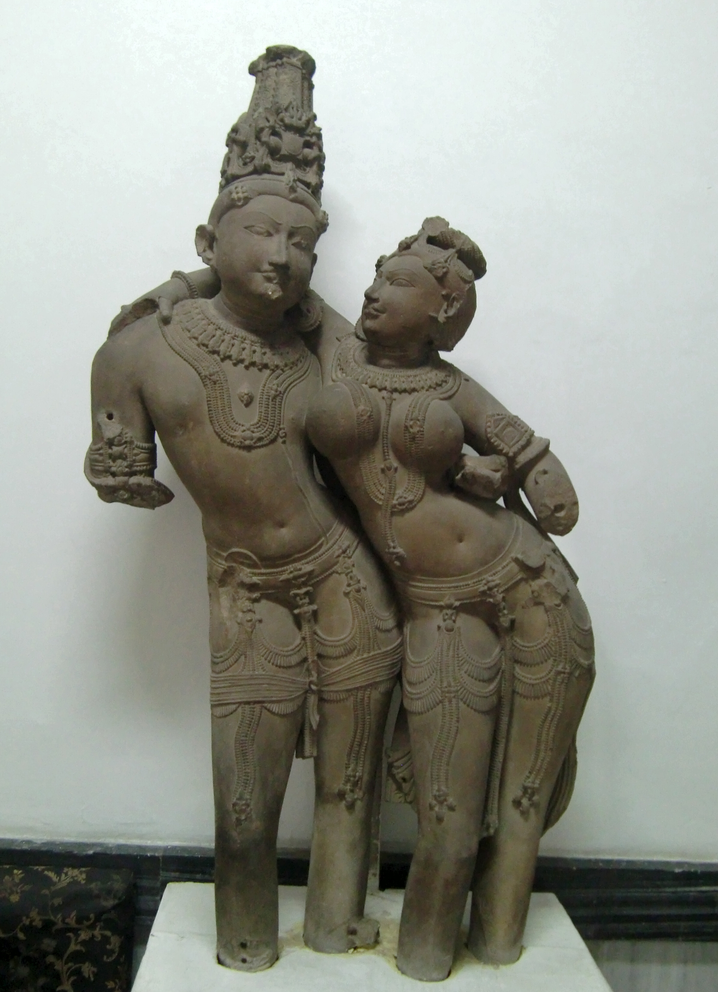 Lakshmi & Narayana 11-th century A.D. stone National museum India